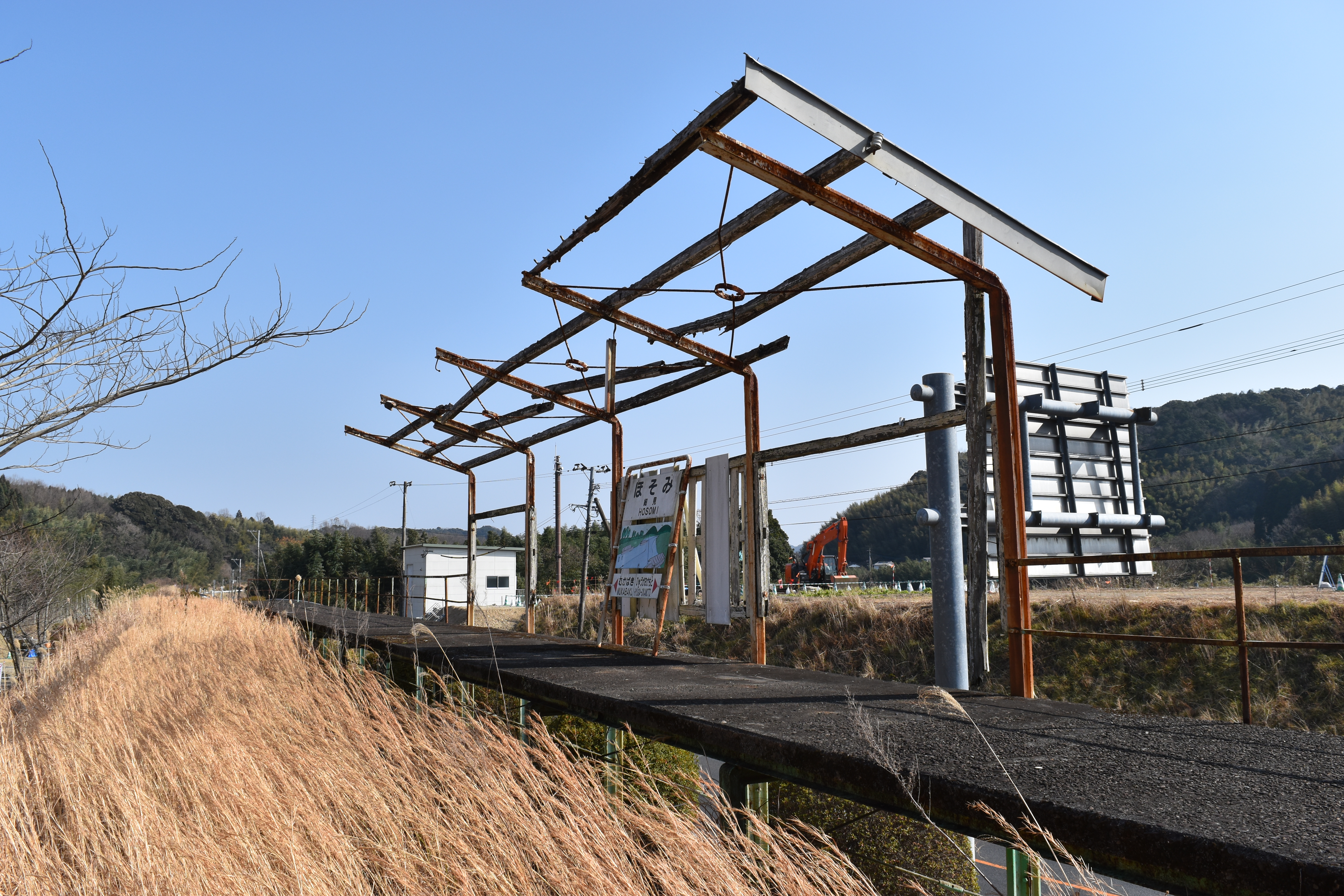 Around HOSOMI abandoned station (細見駅). Taken on 3 Jan 2018 (JST).